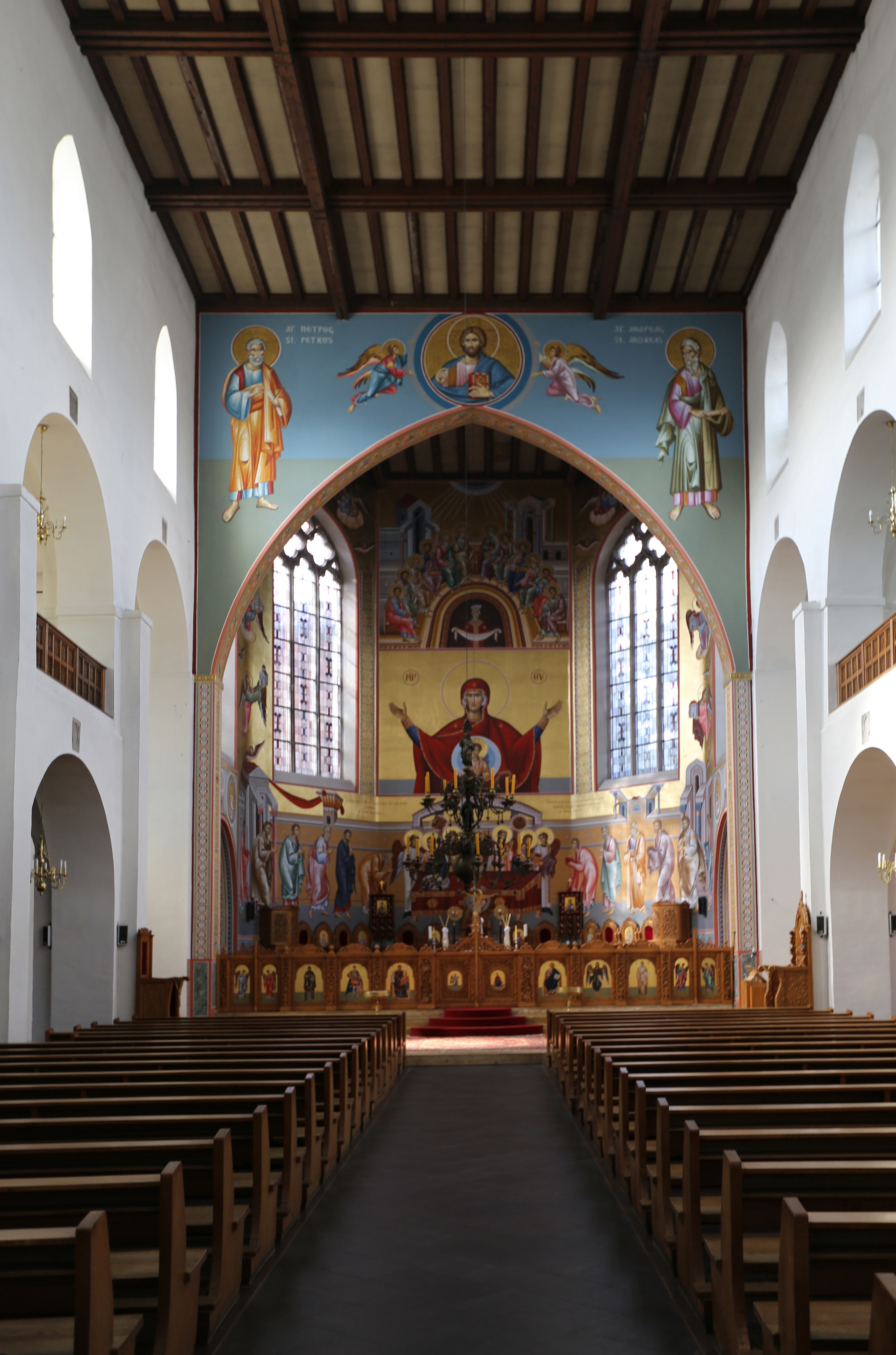 The greek-orthodox church St. Michael and St. Dimitrios, is a former Jesuit church in the Jesuit street Aachen, Germany.